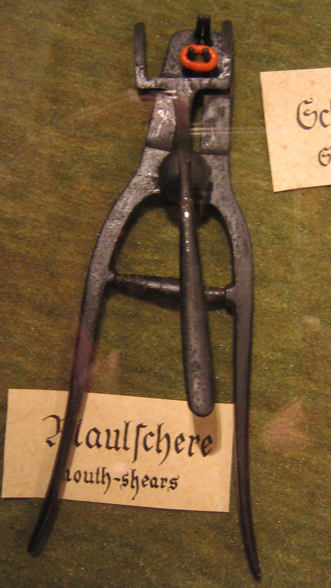 Mouth shears at Schäftertanzmuseum in Rothenburg ob der Tauber